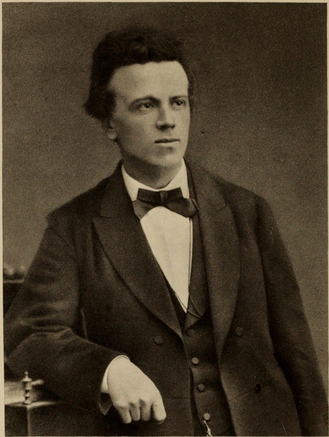 The theologian Franz Overbeck, 1876